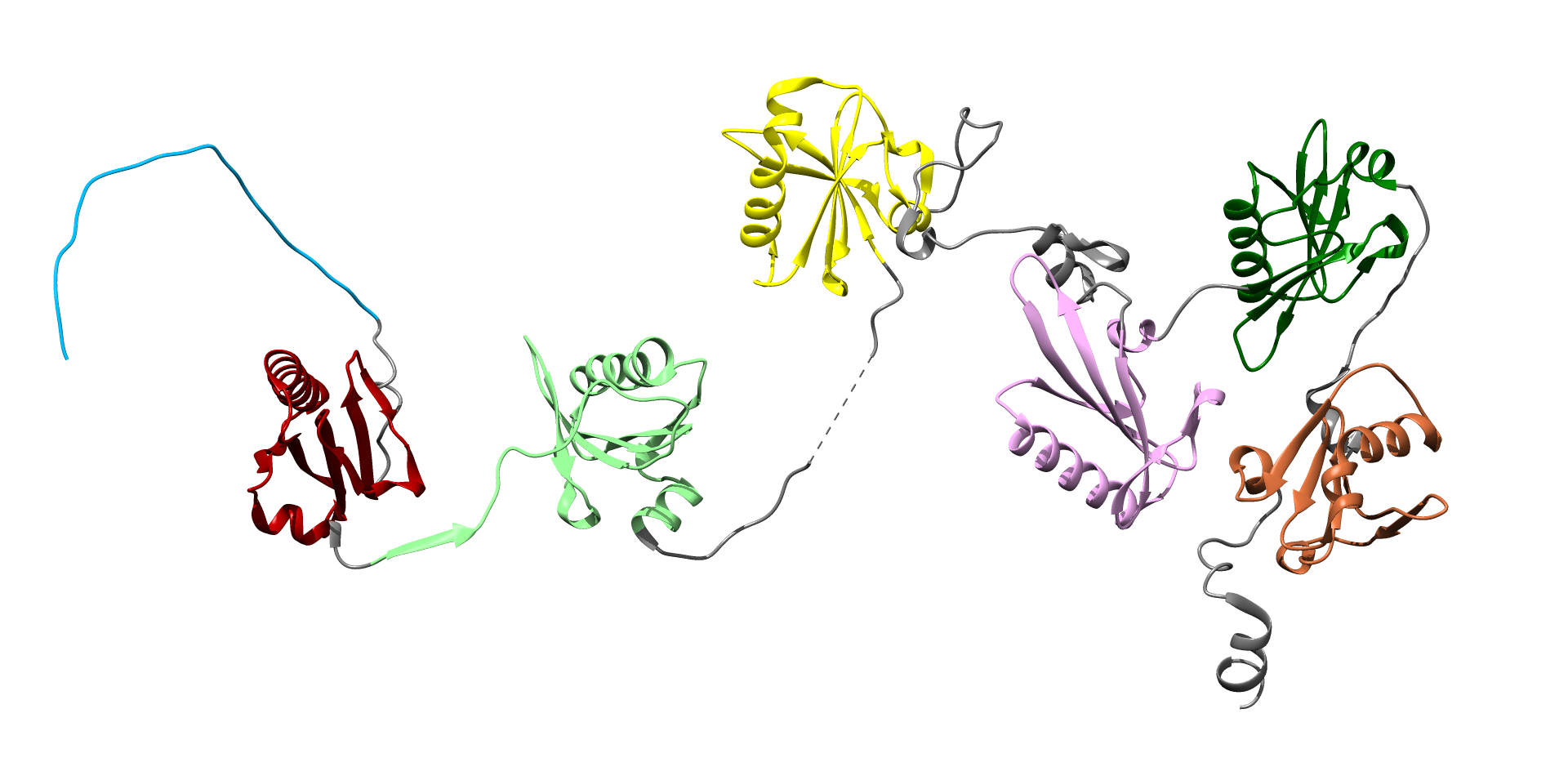 I adapted the PDB entry 3FFN crystal structure to visually match the low-resolution SAXS structure presented in the 2007 publication "Global Structure Changes Associated with Ca2+ Activation of Full-length Human Plasma Gelsolin." I manually added the N-terminal extension of the plasma form, which is missing from 3FFN; 3FFN represents crystallized cellular Gelsolin.